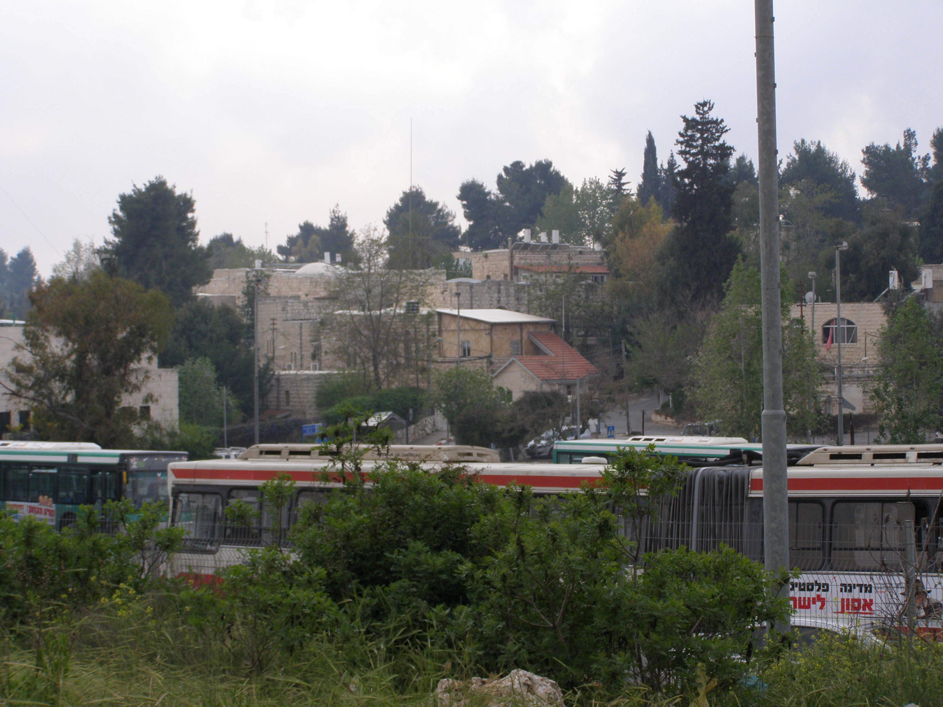 The remains of the Palestinian village of Deir Yassin, now part of the Kfar Shaul Mental Health Center, Jerusalem, Israel.